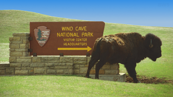 Wind Cave National Park, South Dakota, USA - bison scratches itself against park sign.